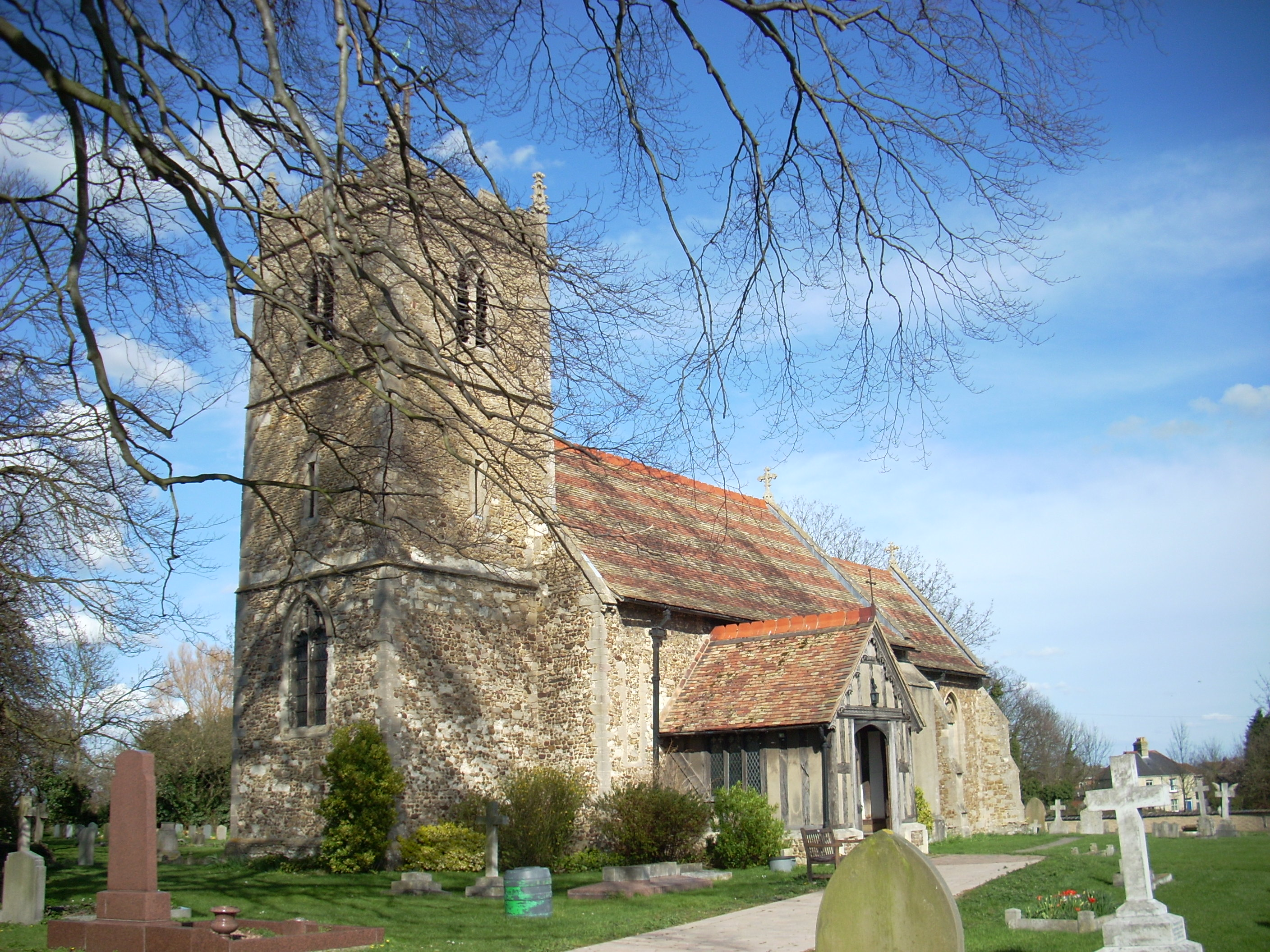 St Andrew's church, Impington, Cambridgeshire, England